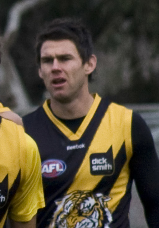 Brett Deledio, Shane Edwards and Chris Newman at Richmond training in August 2009